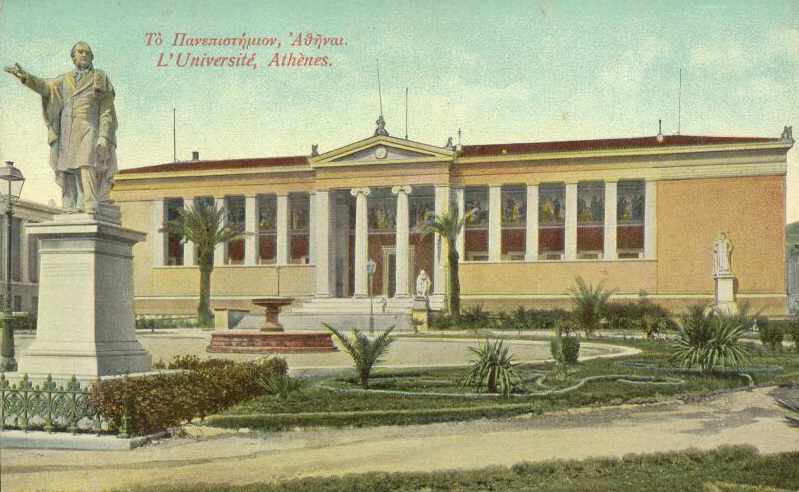 The main building of the National and Kapodistrian University of Athens, in a postcard of 1910.